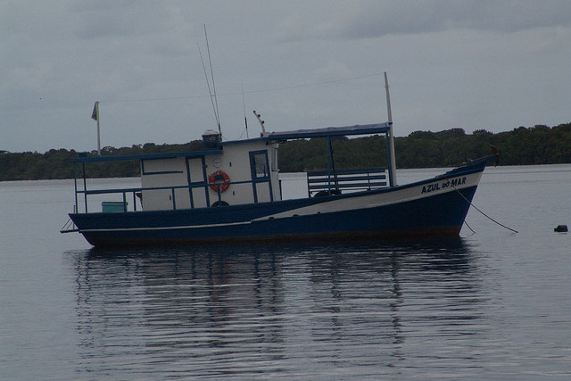 Fishing boat in Cananéia, São Paulo, Brazil.